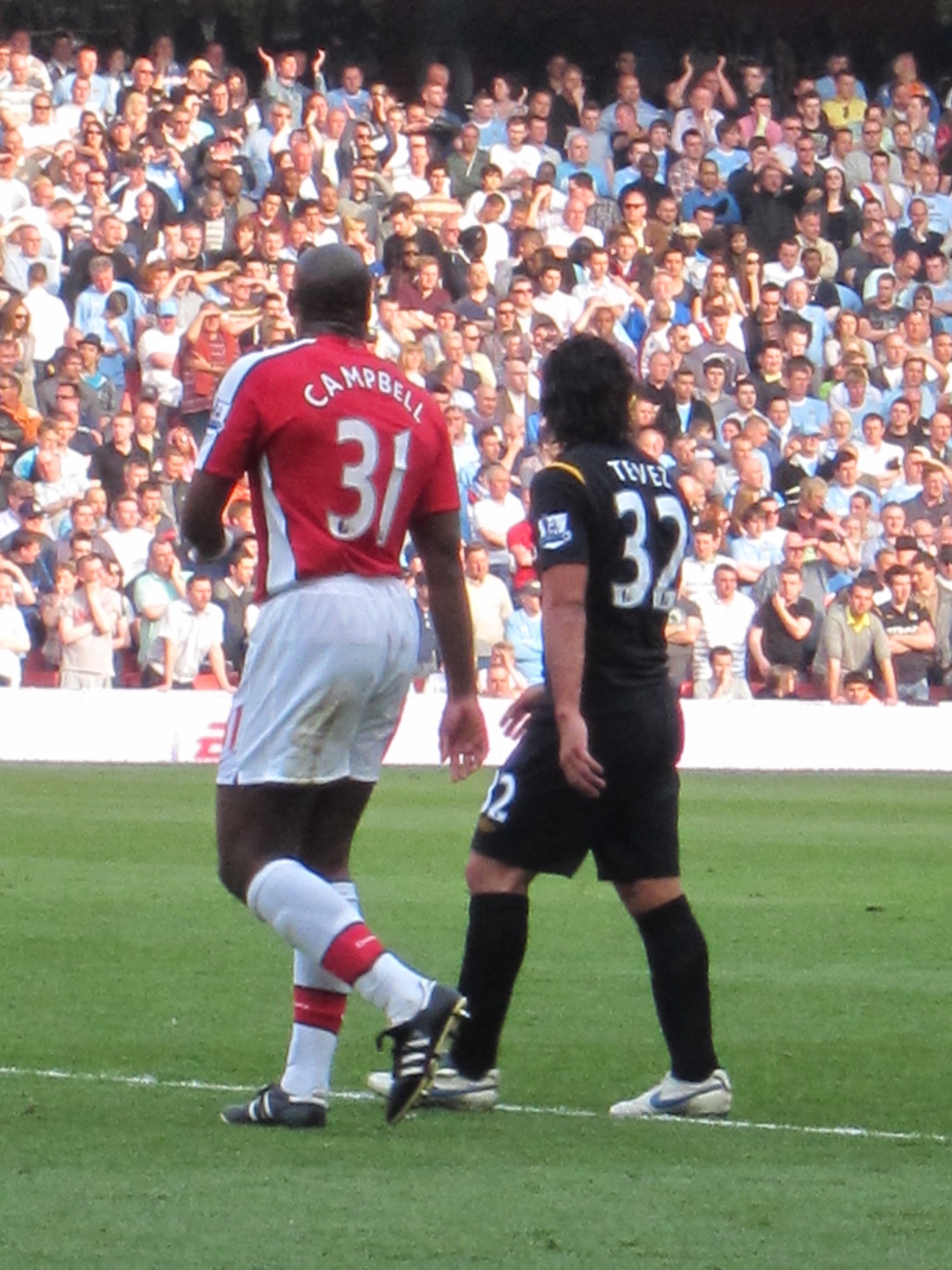 Arsenal's Sol Campbell with Manchester City's Carlos Tevez in 2011